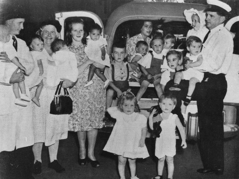 Children arriving at City Hall for vaccinations, Brisbane, 1951 Children from an Institution are arriving at the City Hall Clinic for immunisation against Diphtheria and Whooping Cough. (Description supplied with photograph).